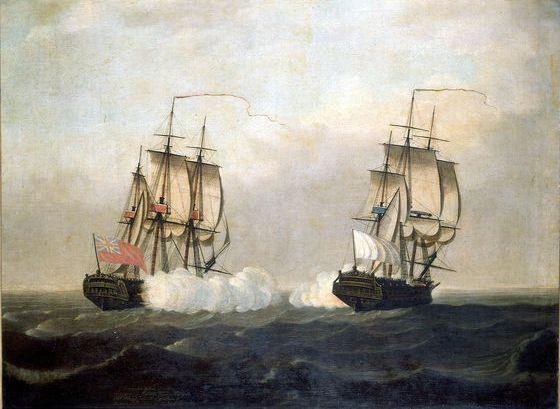 The action between the English East Indiaman Pitt and French ship St Louis was a minor event which occurred off Fort St David, near Pondicherry. When Commodore Wilson, the captain of the ‘Pitt’ tried to engage the ‘St Louis’ in blowy weather he was unable to operate his lower tier of guns. So he was forced to break off the engagement after a brief exchange and escaped by out-sailing the Frenchman. The painting shows the two ships firing into each other, with the ‘Pitt’ on the left. The painting is inscribed ‘Commodore Wilson of the ‘Pitt’ engaging the ‘St Louis’ French ship of the line belonging to the Squadron of Monsieur de Ache on the 28th Septem 1759’, although the date written is incorrect.